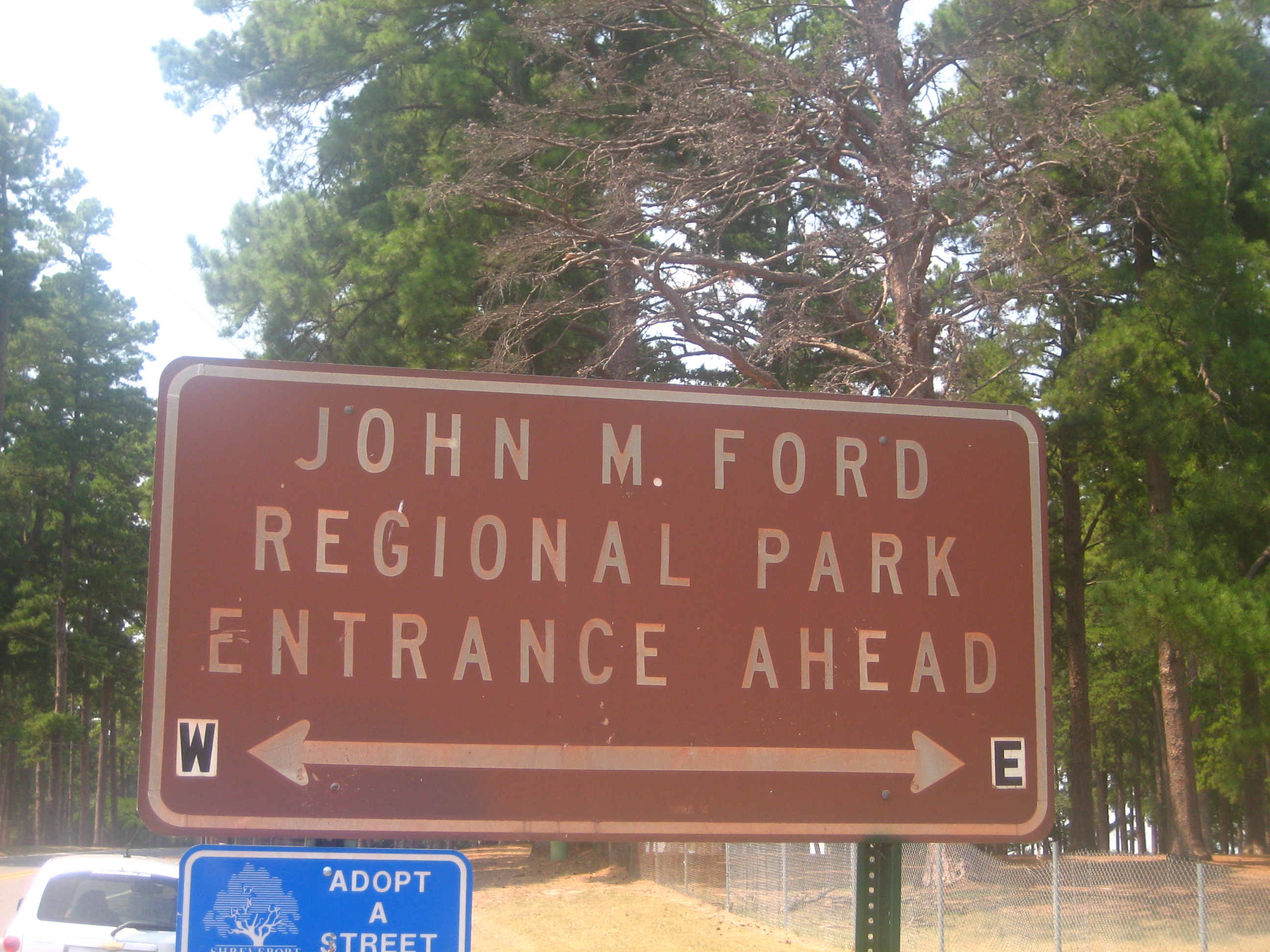 I took photo on Aug. 3, 2008.Billy Hathorn (talk) 21:52, 14 August 2008 (UTC)